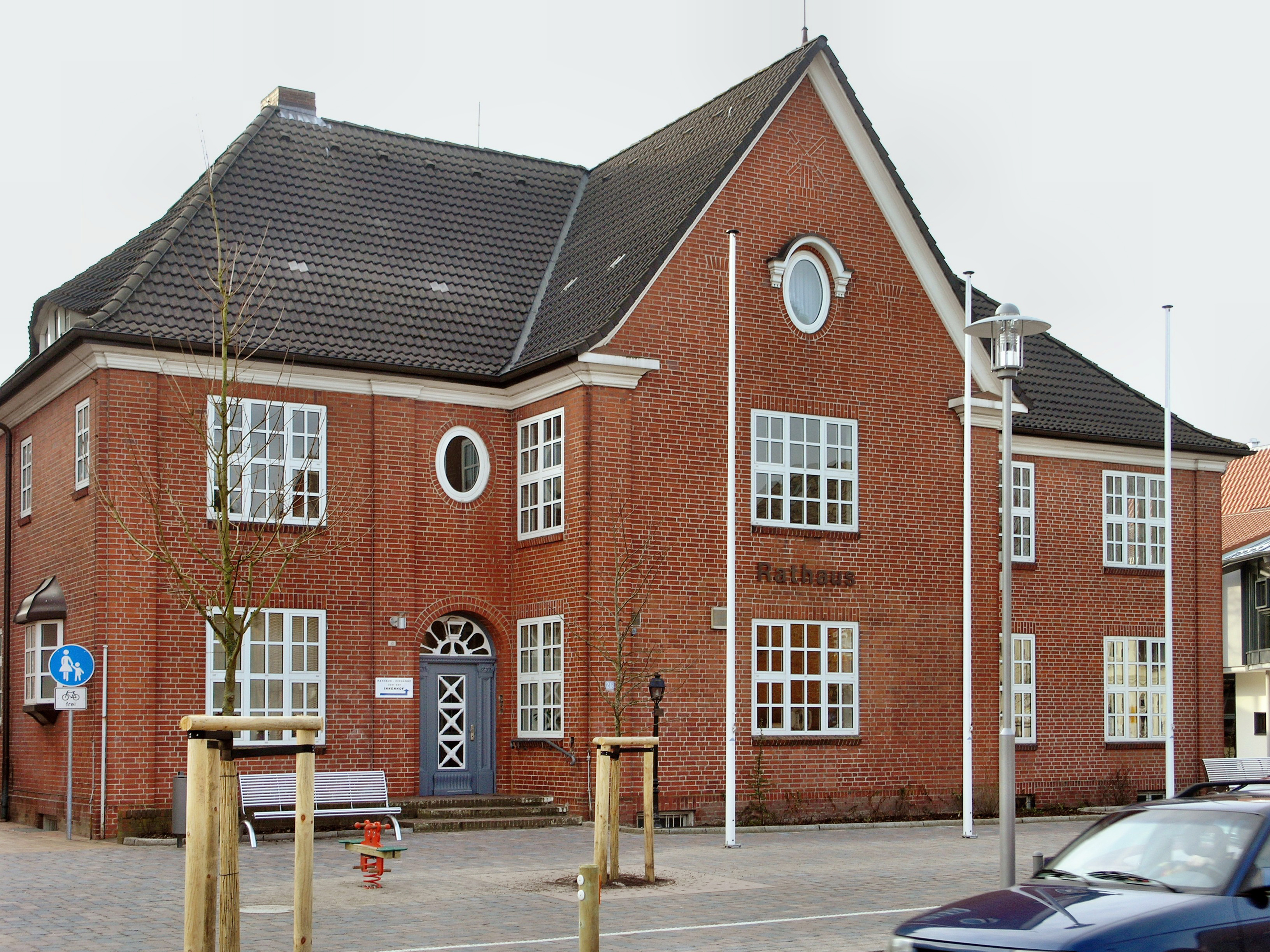 Townhall Bargteheide